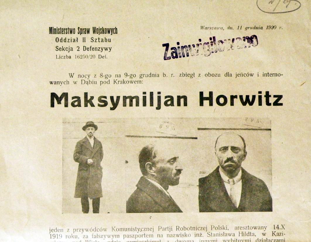 Wanted poster for Maksymilian Horwitz (1877-1937).